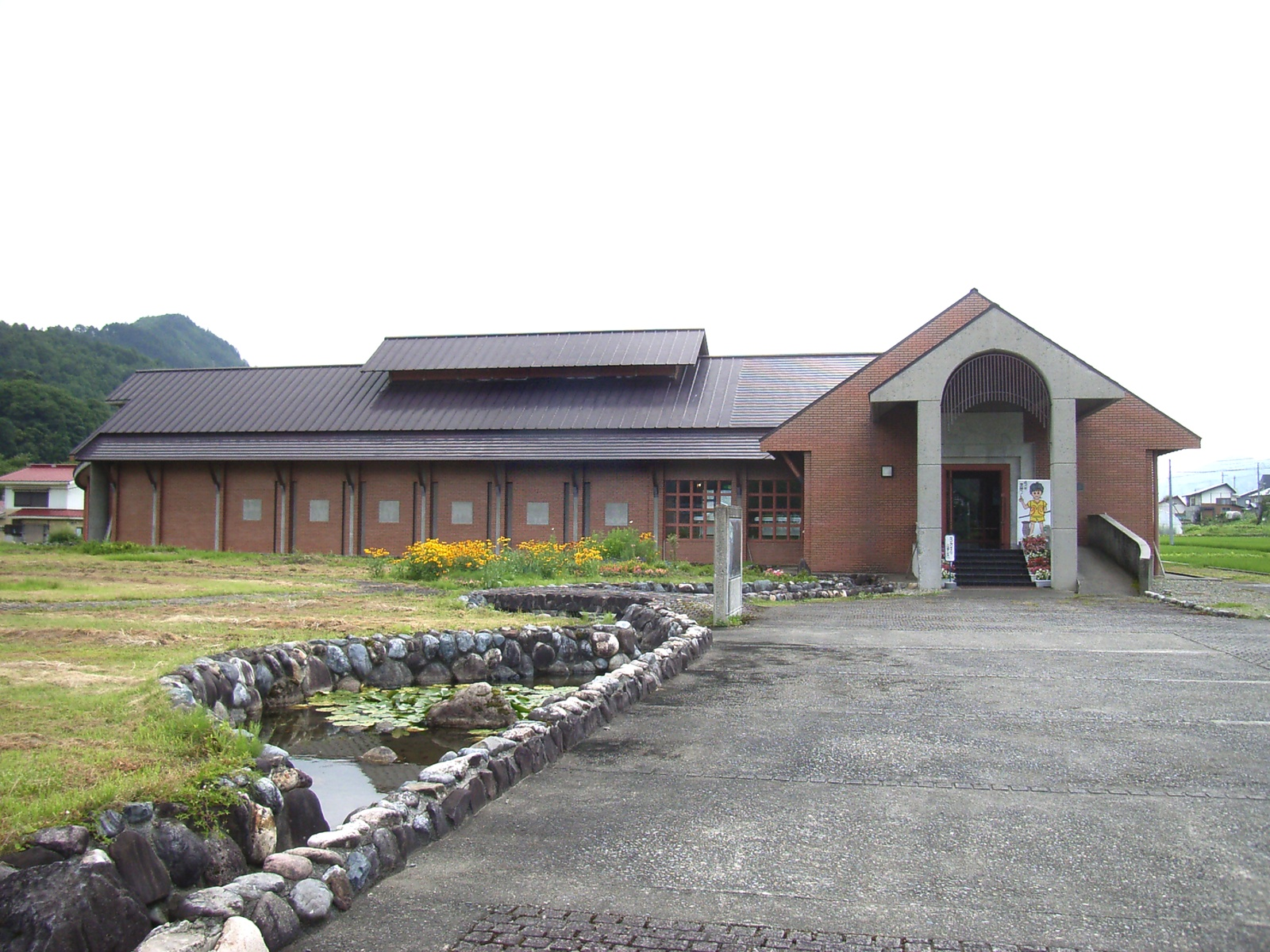 Aizu Tadami Old Material Museum in Tadami Town, Fukushima Prefecture, this photo taken in August 2, 2006